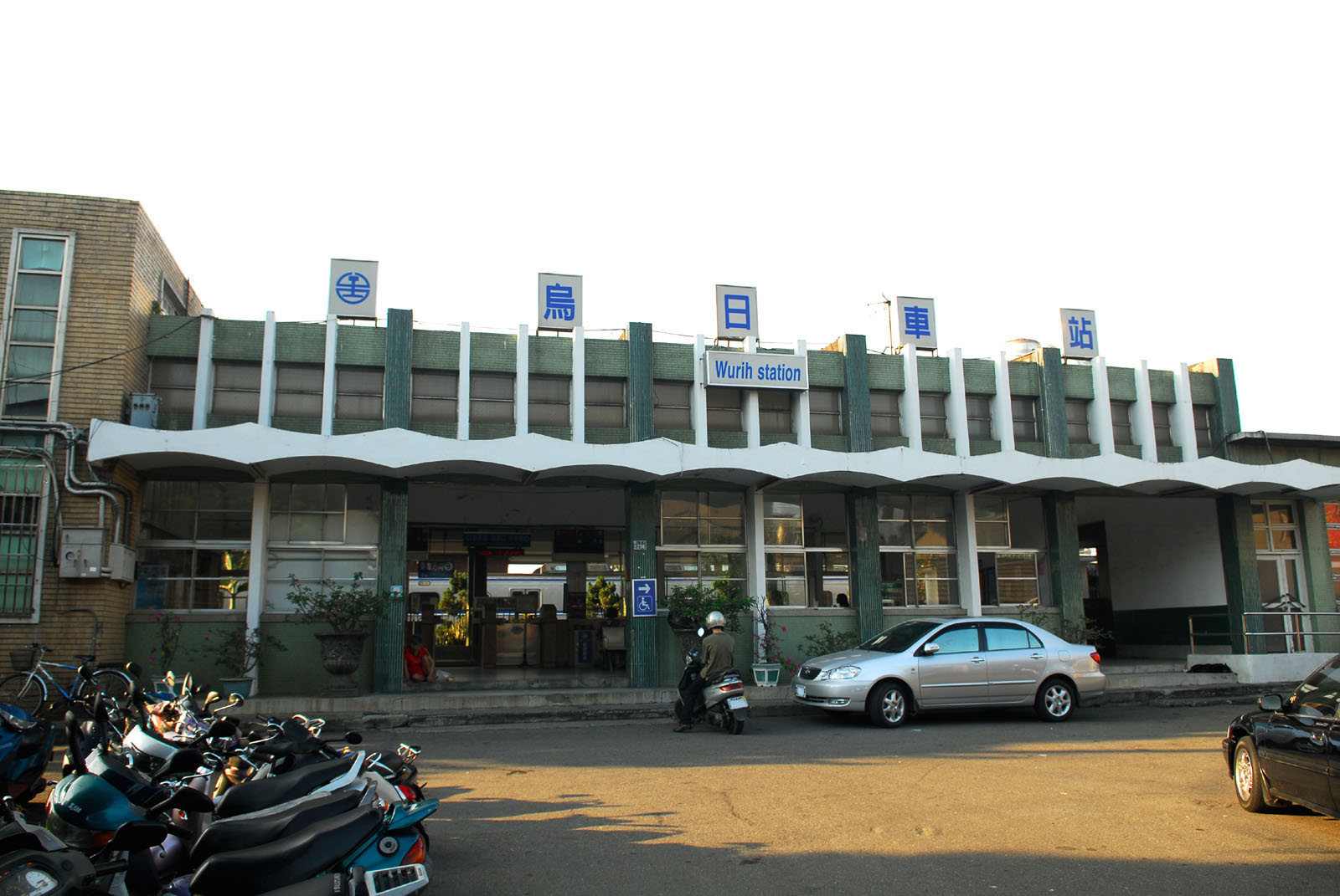 Wurih Station is a small train station of Taiwan's Western Main Line. The train station is the central station of Wurih Township, Taichung County.